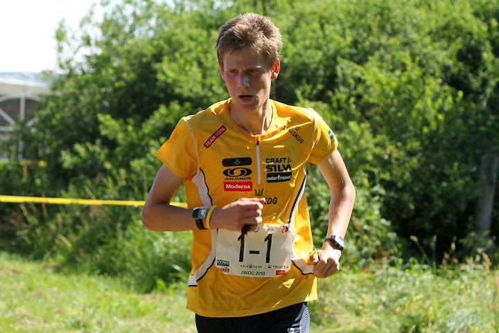 Olle Boström in Junior Orienteering Championships 2010 relay first leg